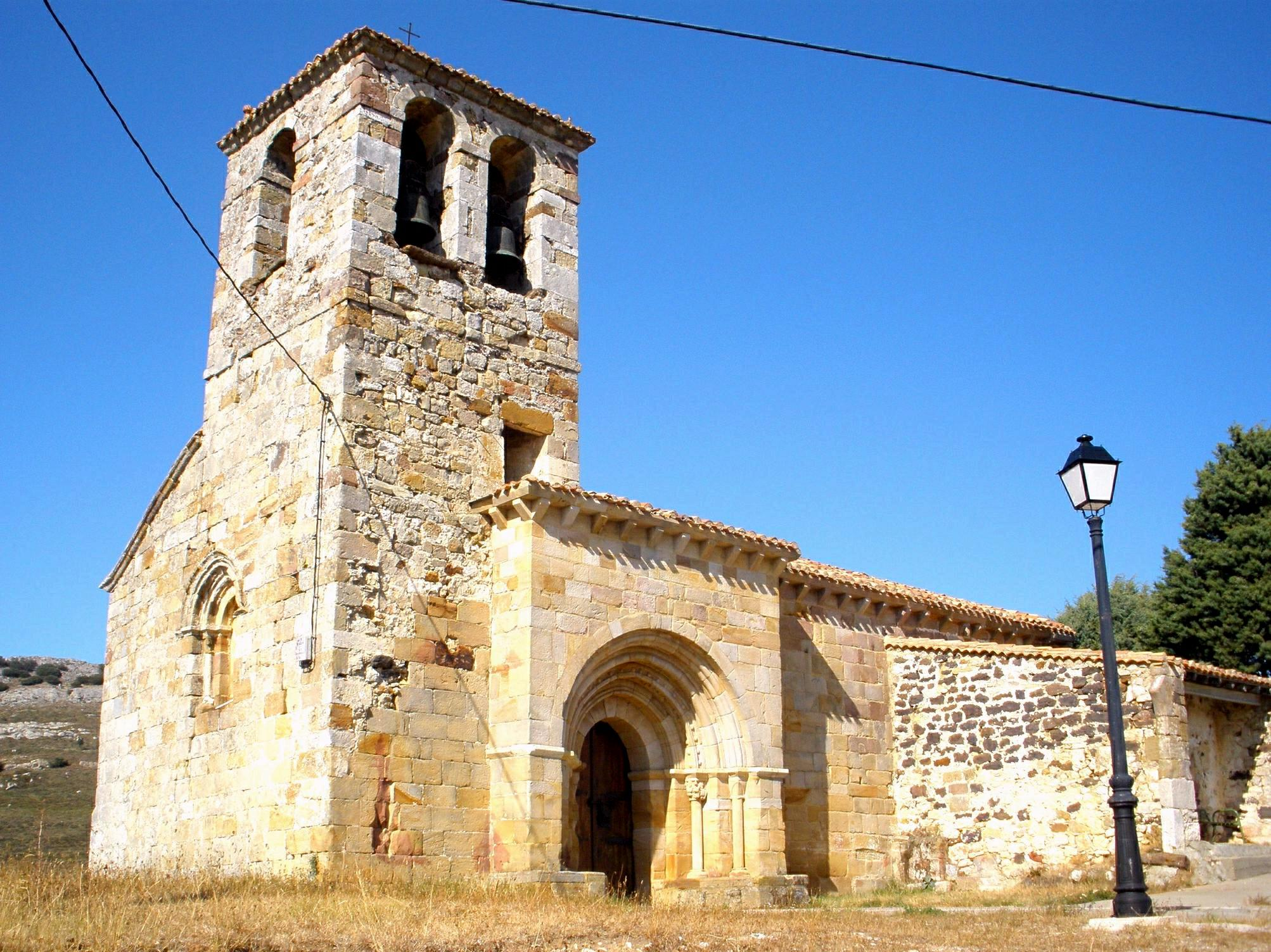 Iglesia parroquial de San Cosme y San Damián, en Basconcillos del Tozo (Burgos, Castilla y León, España)